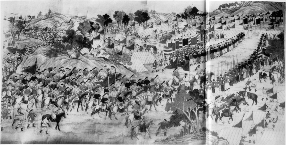 A scene of the Nien Rebellion (1851–1868). From "Victory over the Nian", a set of eighteen paintings.